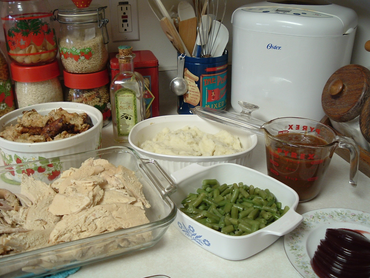 Yay! Love those leftovers. Two of my favorite things to do with them: enchilada casserole - Note: use leftover turkey instead of chicken :-) turkey potato soup Of course, that only takes care of the turkey, not all the other stuff. We will have to have turkey and dressing and mashed potatoes and gravy and cranberry sauce at least once more!